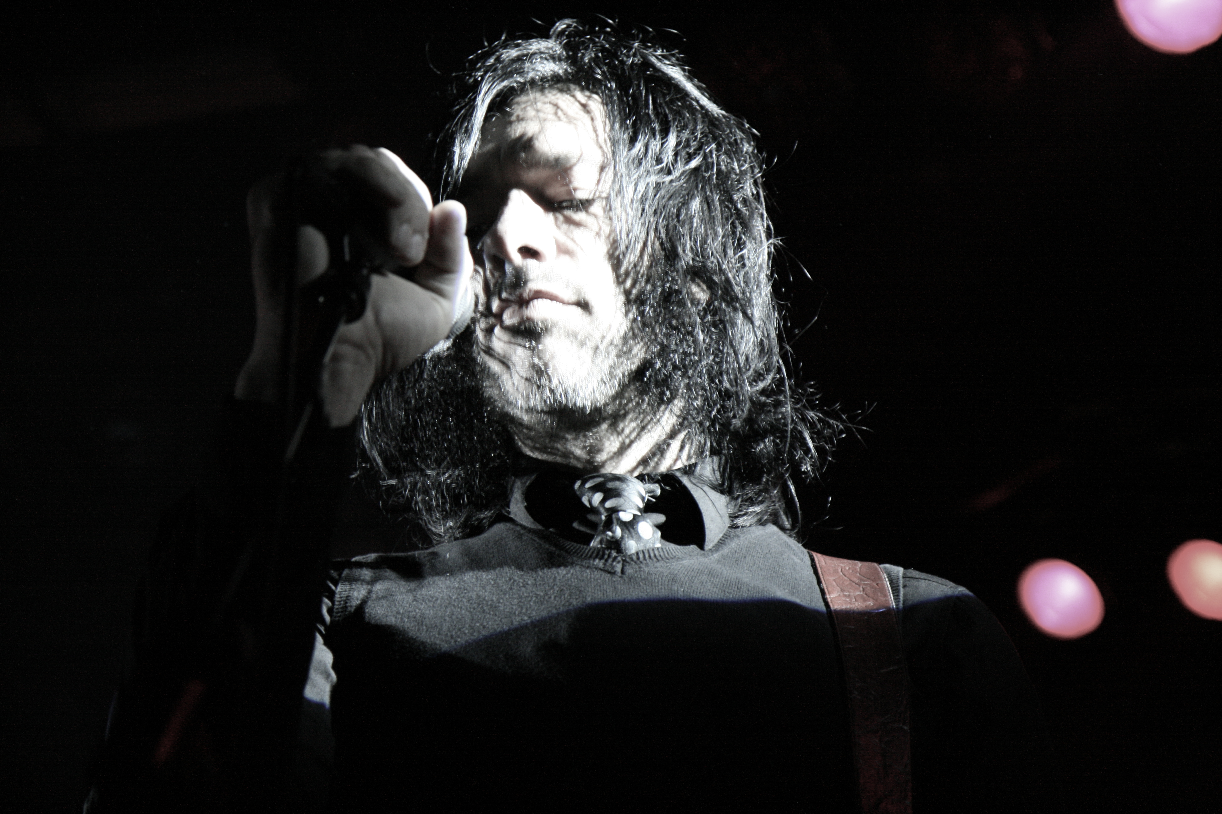 Brian O'Connor playing with the Eagles of Death Metal at the Commodore Ballroom.